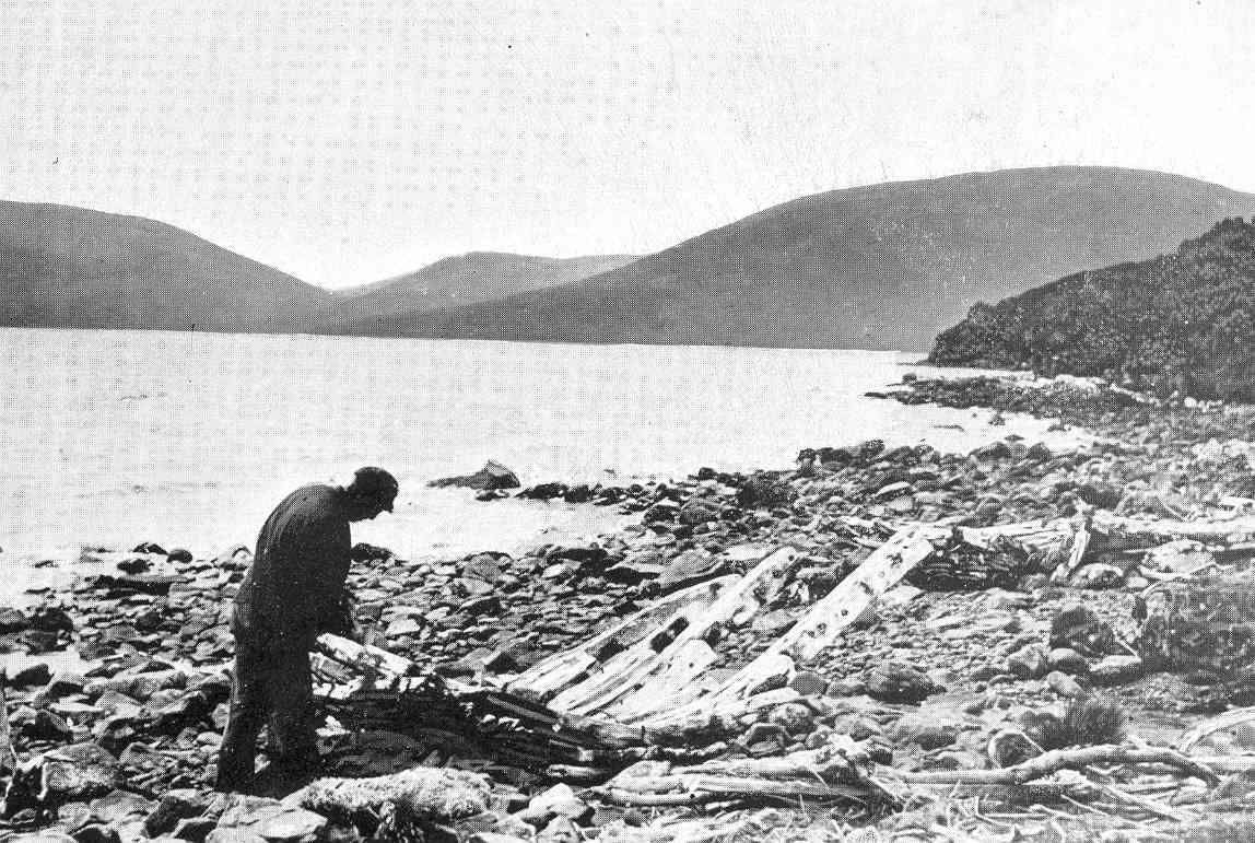 Remains, of the "Grafton" Wreck, Carnley Harbour, Auckland Islands Subject: Auckland Islands (New Zealand), Grafton (Schooner), Shipwrecks--New Zealand--Auckland Islands Geographic Subject: New Zealand--Auckland Islands--Carnley Harbour Tag: Coasts, Vessels